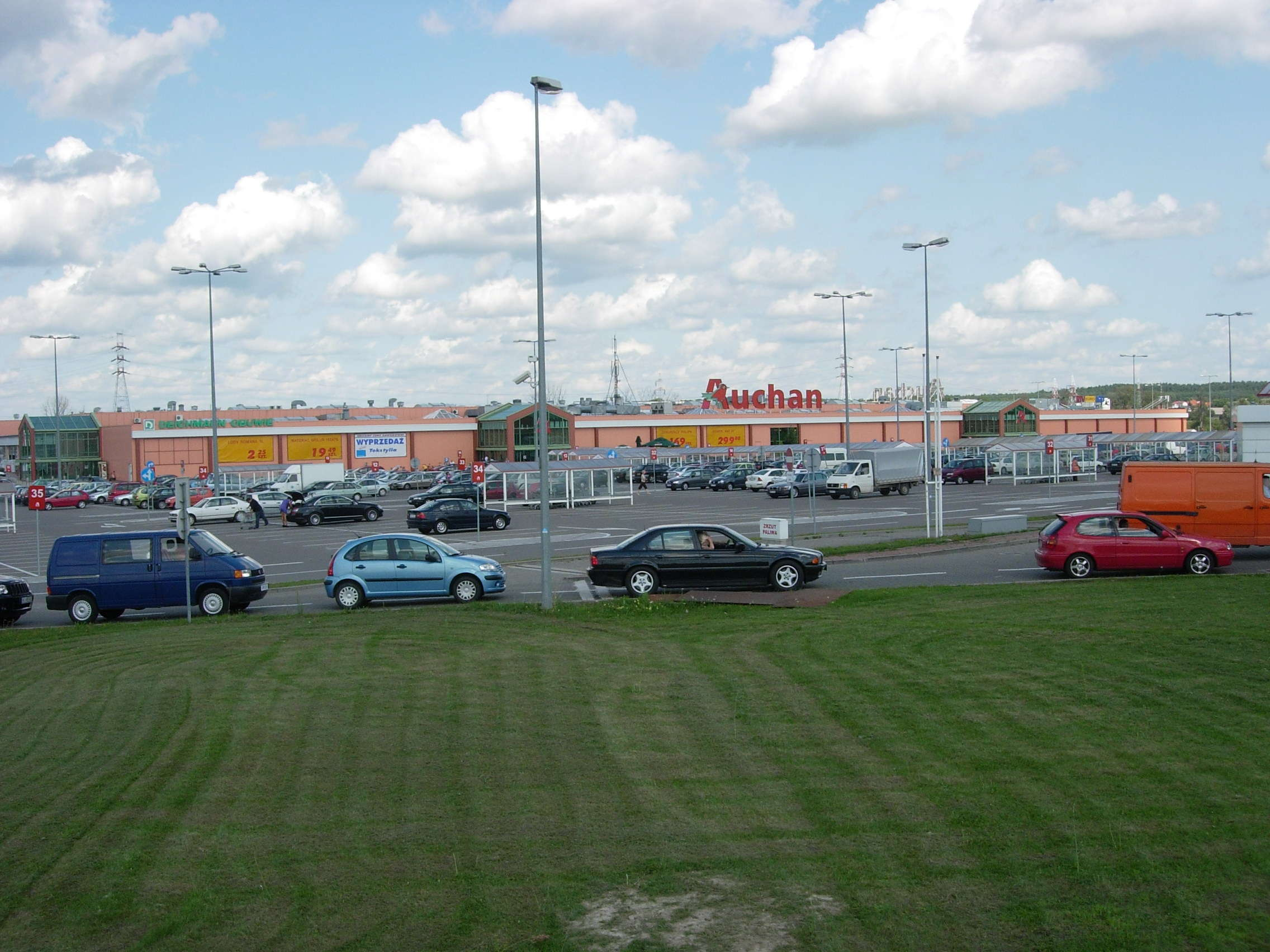 Auchan, Białystok, (Zawady), Poland